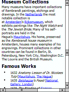 Wikipedia on the handheld